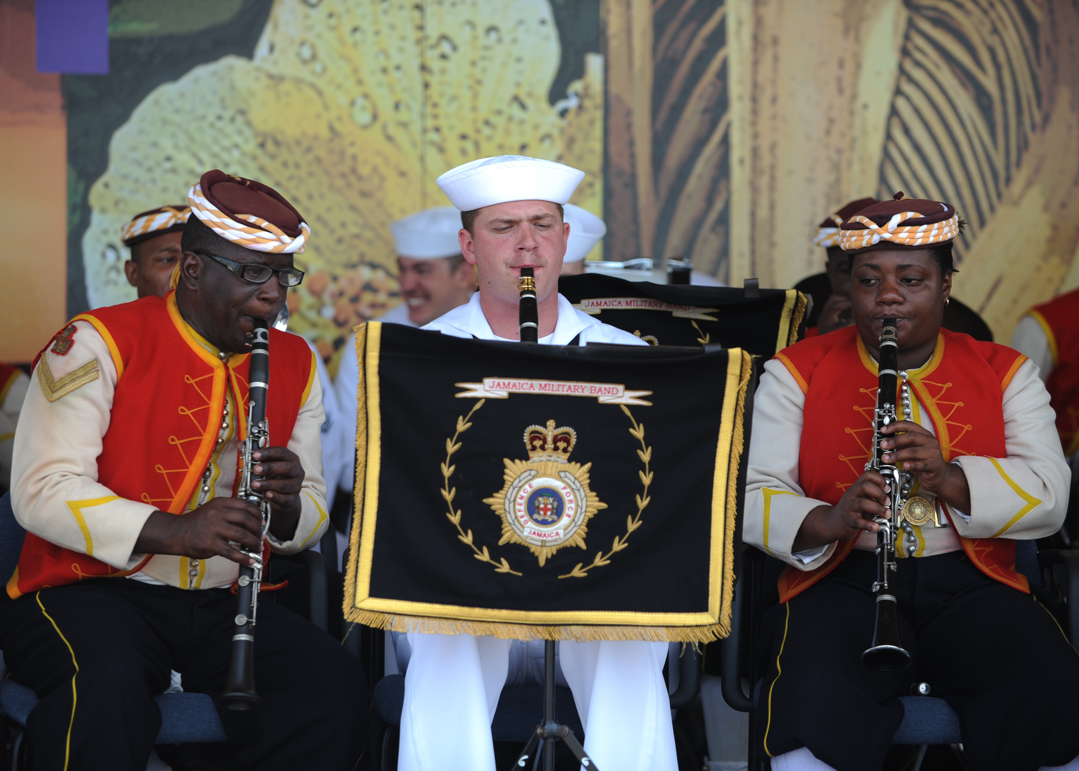 KINGSTON, Jamaica (April 21, 2011) Musician 3rd Class Fred Vaughan, assigned to the U.S. Fleet Forces Band, and members of the Jamaican Defense Force Band perform during the closing ceremony for the Jamaican phase of Continuing Promise 2011. Continuing Promise is a five-month humanitarian assistance mission to the Caribbean, Central and South America. (U.S. Navy photo by Mass Communication Specialist 2nd Class Eric C. Tretter/Released)